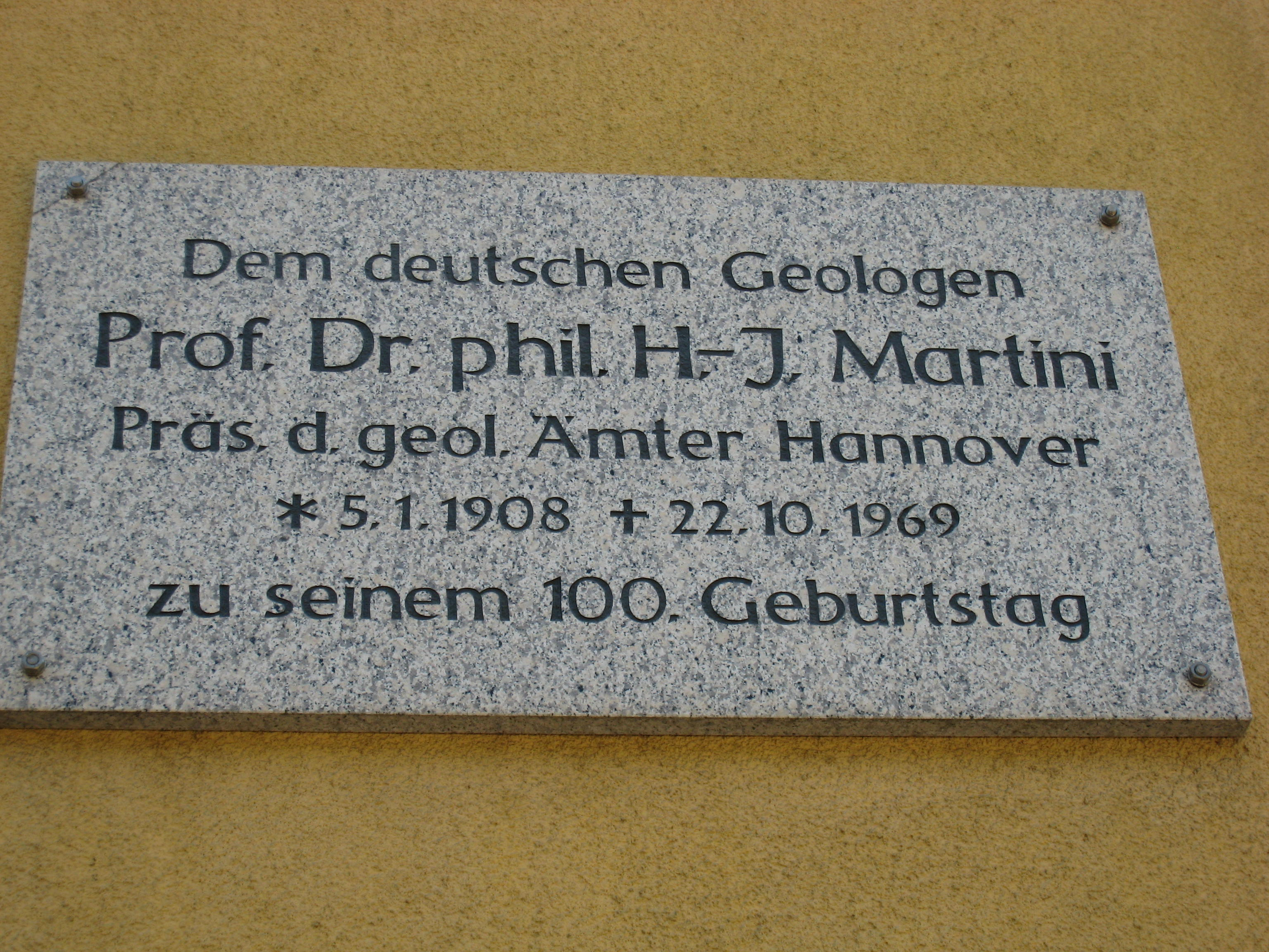 Gedenktafel Martini in Bad Sulza